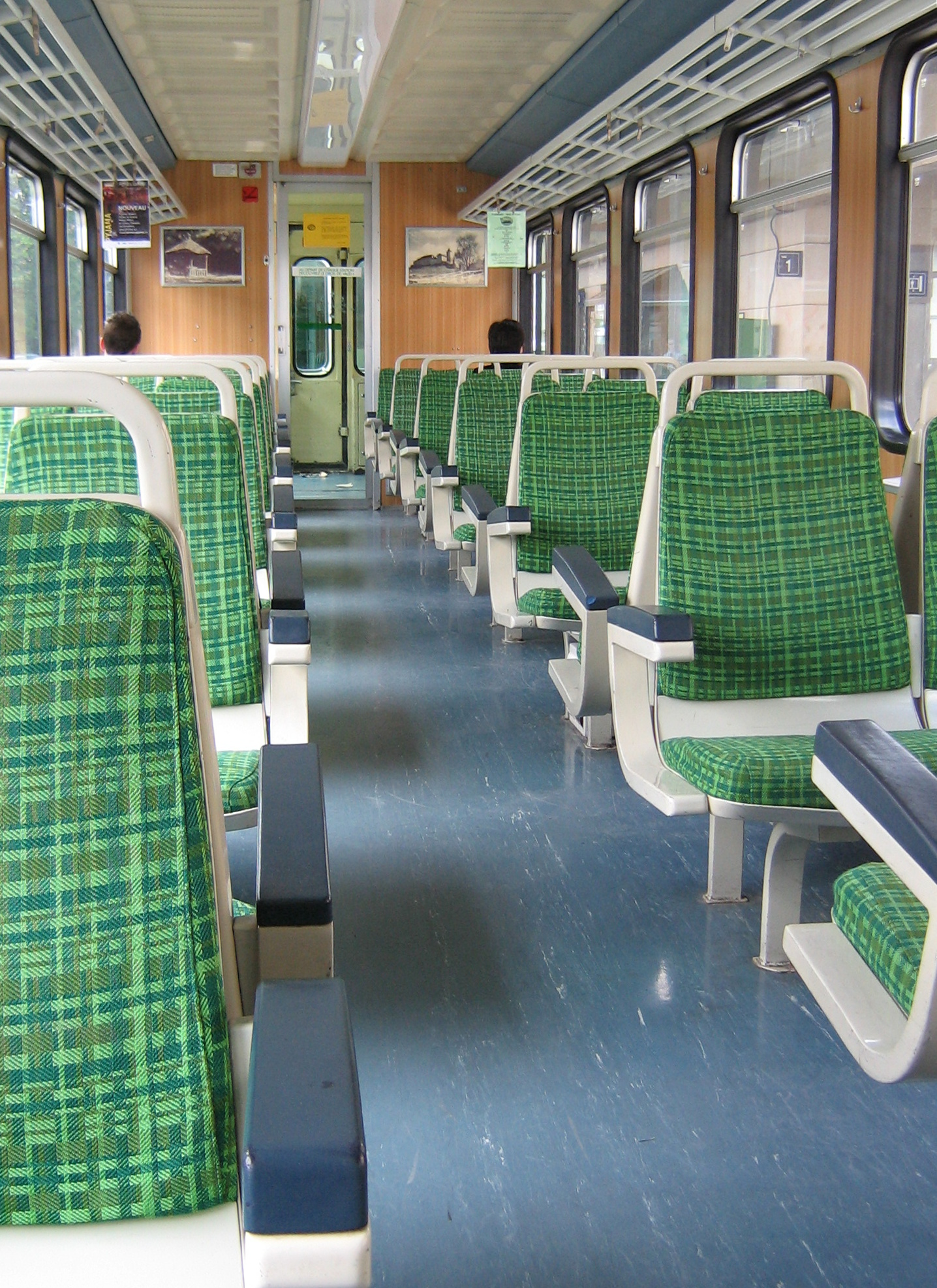 Inside the back part of the self-propelled Be 4/8 31 Lausanne